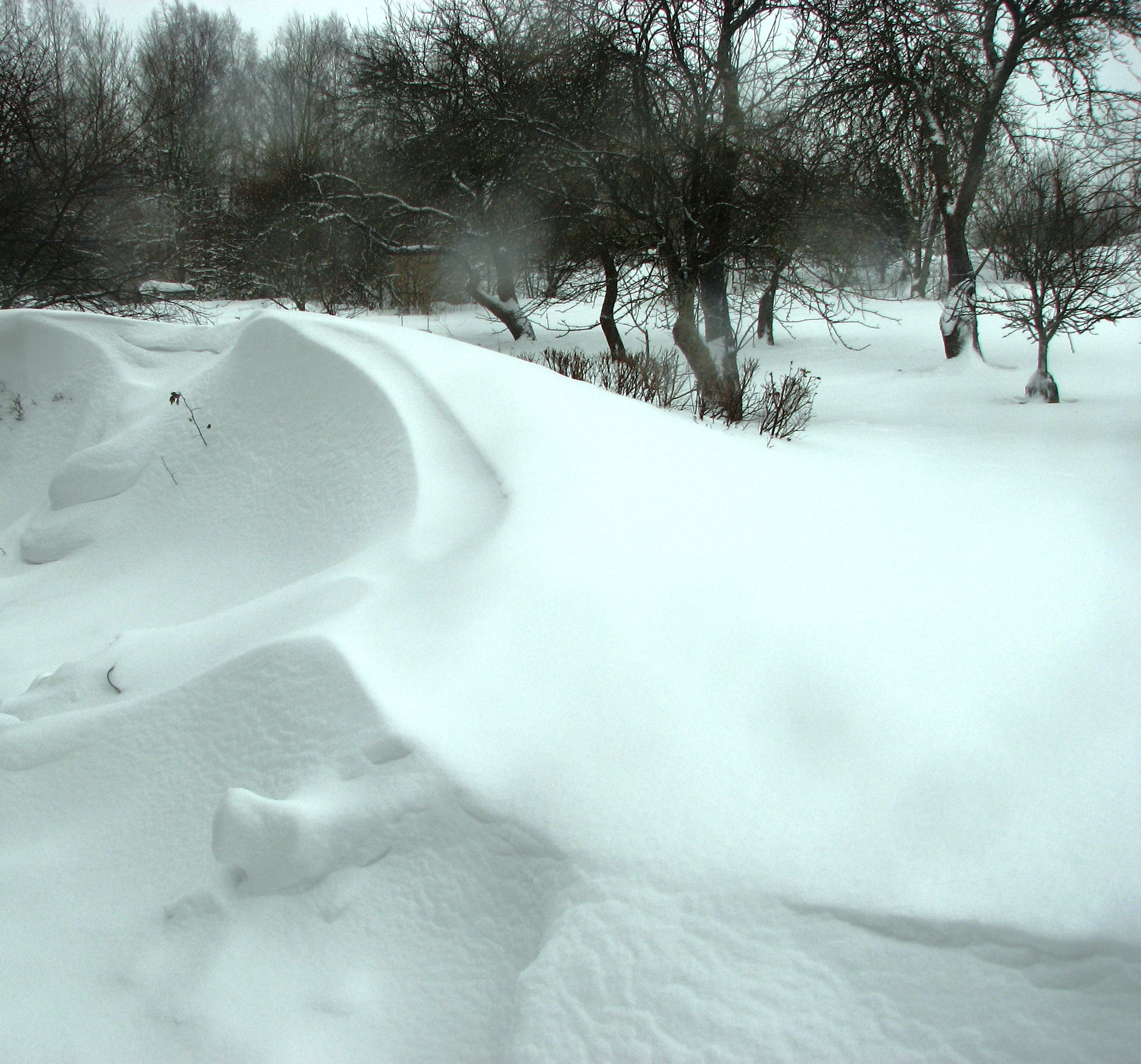 Snowdrift in Tõnija village, Valjala parish, Saaremaa island